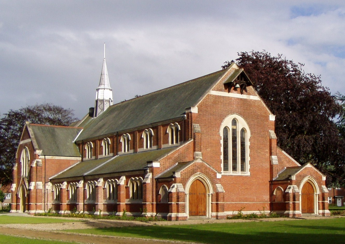 Netherne Leisure Centre, Netherne on the Hill, Surrey, seen from the northwest. It was built as the chapel for the psychiatric hospital that stood on the site. It is now a fitness centre, including a gymnasium and swimming pool.